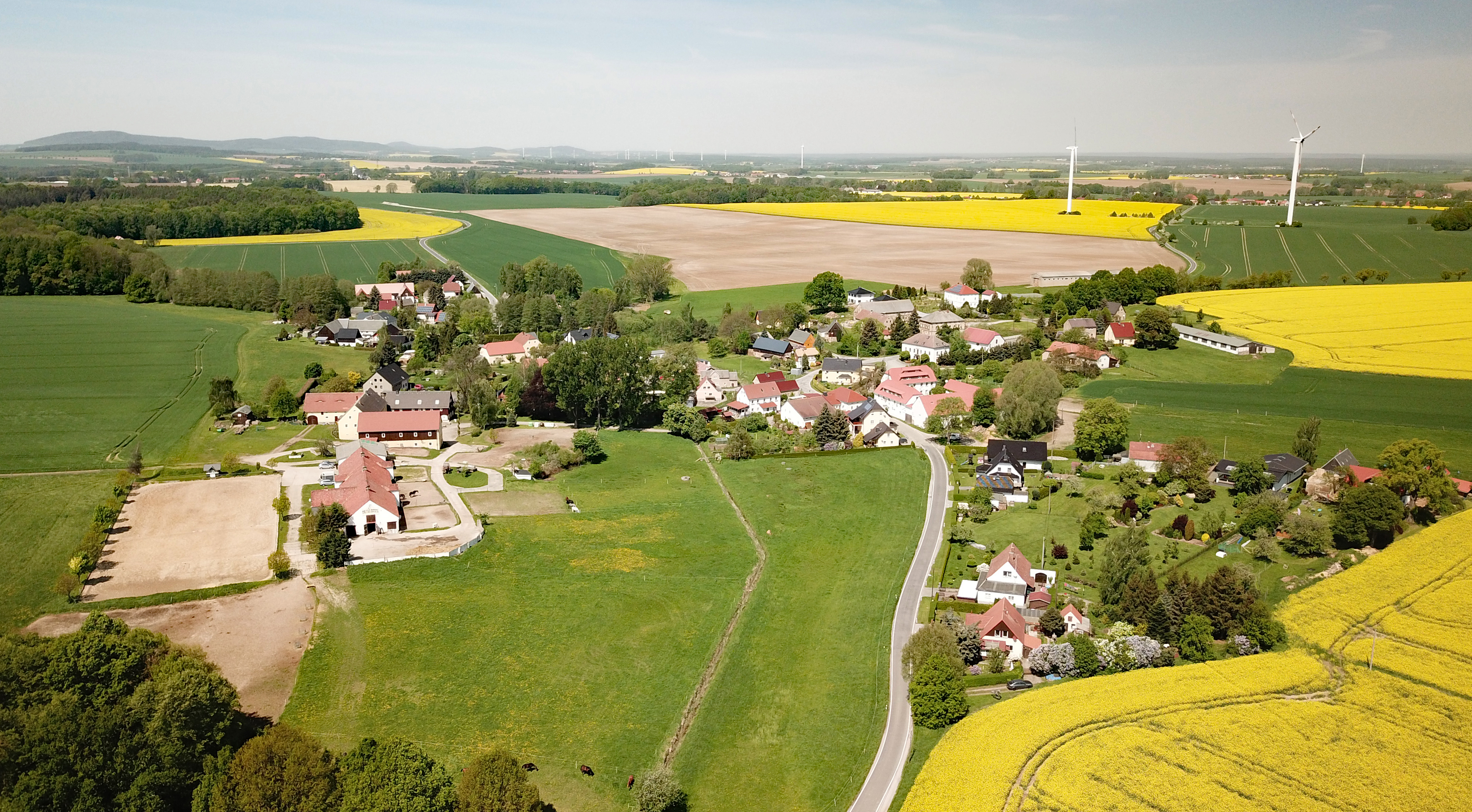 Großhänchen (Burkau, Saxony, Germany) Hornjoserbsce: Powětrowy wobraz Wulkeho Wosyka